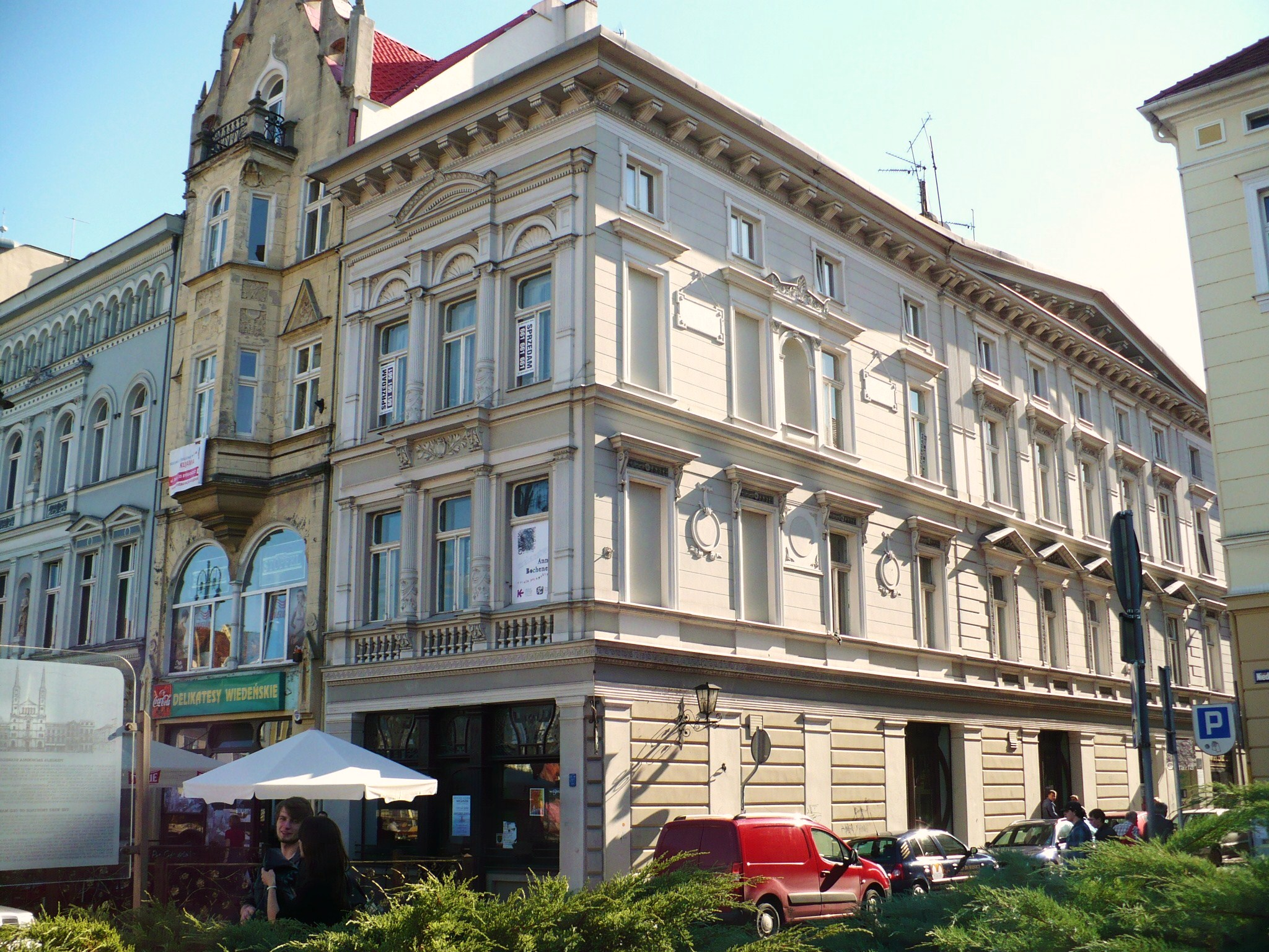 Neo-Renaissance house in Bydgoszcz